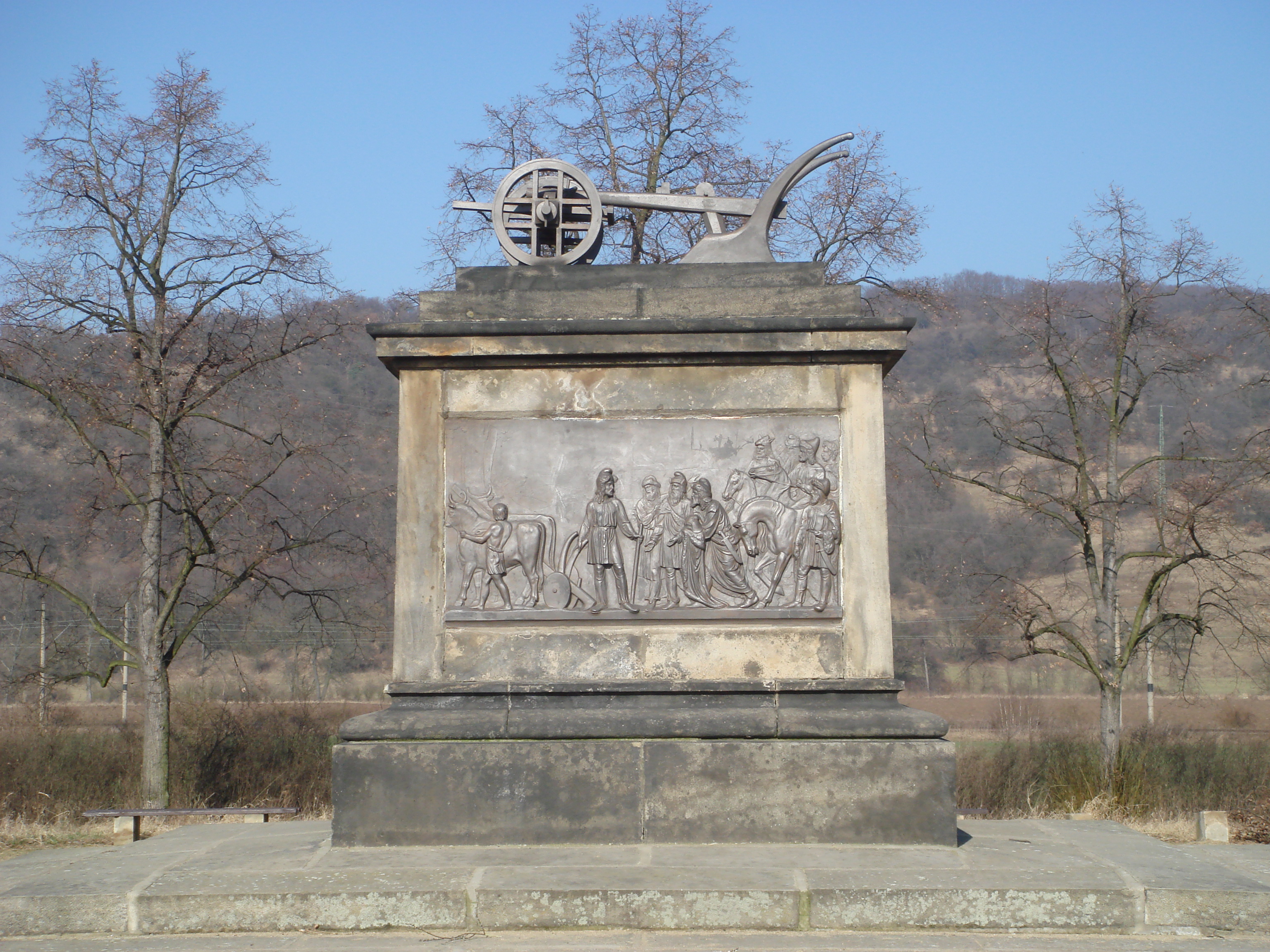 The Přemysl Oráč (Přemysl the Ploughman) monument on the Královské pole (Royal field) in Stadice (Ústí nad Labem Region, Czech Republic).